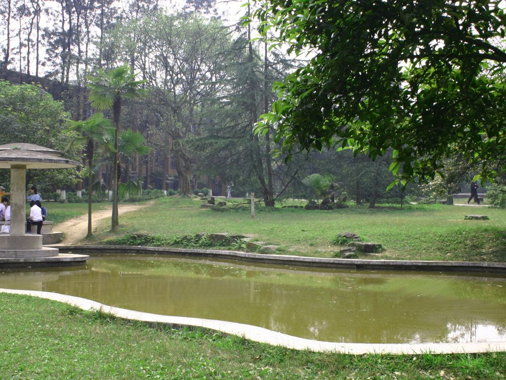 This is Huangling campus of SUSE in China